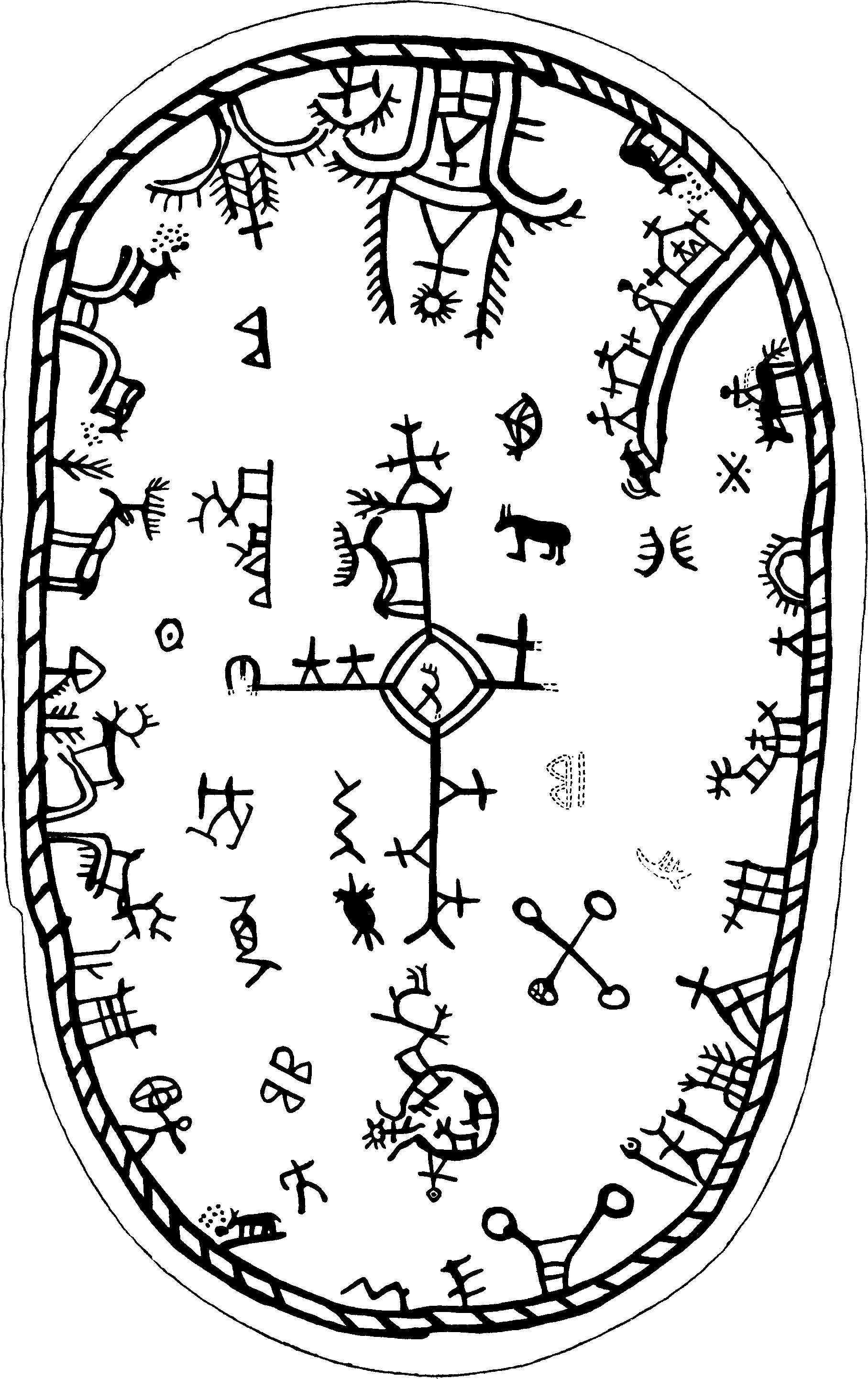 Sami drum from southern sami area in Norway or Sweden. Frame drum. Height 48; width 30 cm. No 31 in Ernst Manker's Die lappische Zaubertrommel (1938/1950). In Nationalmuseet, Copenhagen, since 1849. Previously in Kgl. Kunstmuseum, Copenhagen, since 1739; possibly one of the ca 100 drums confiscated by Thomas von Westen.